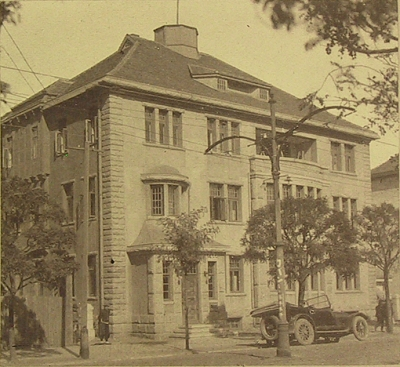 USSR Consulate in Dalian